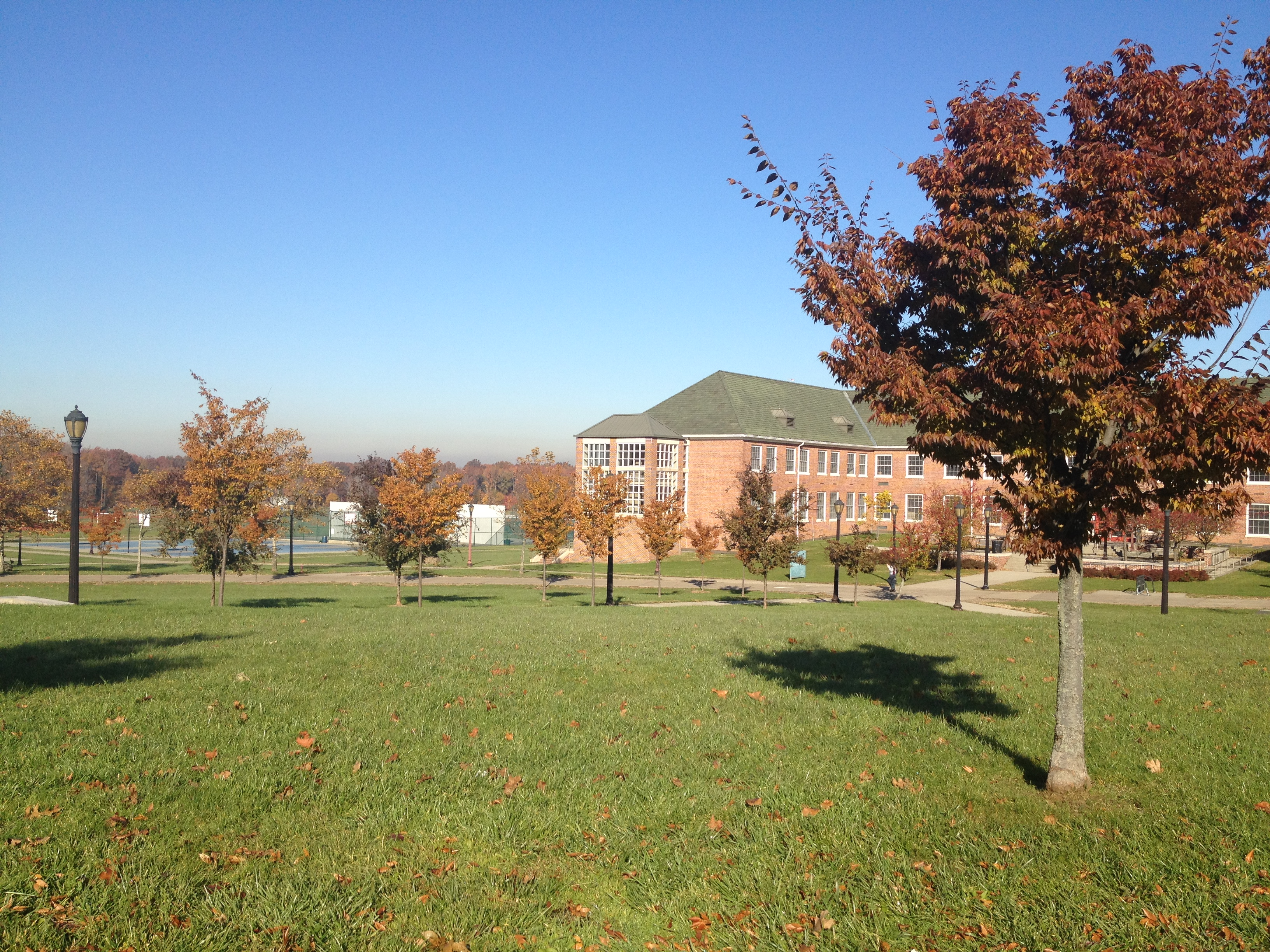 College of Staten Island Campus A view to the North West of the 204 acre campus of the the College of Staten Island. Building 4N is in the center of the frame.